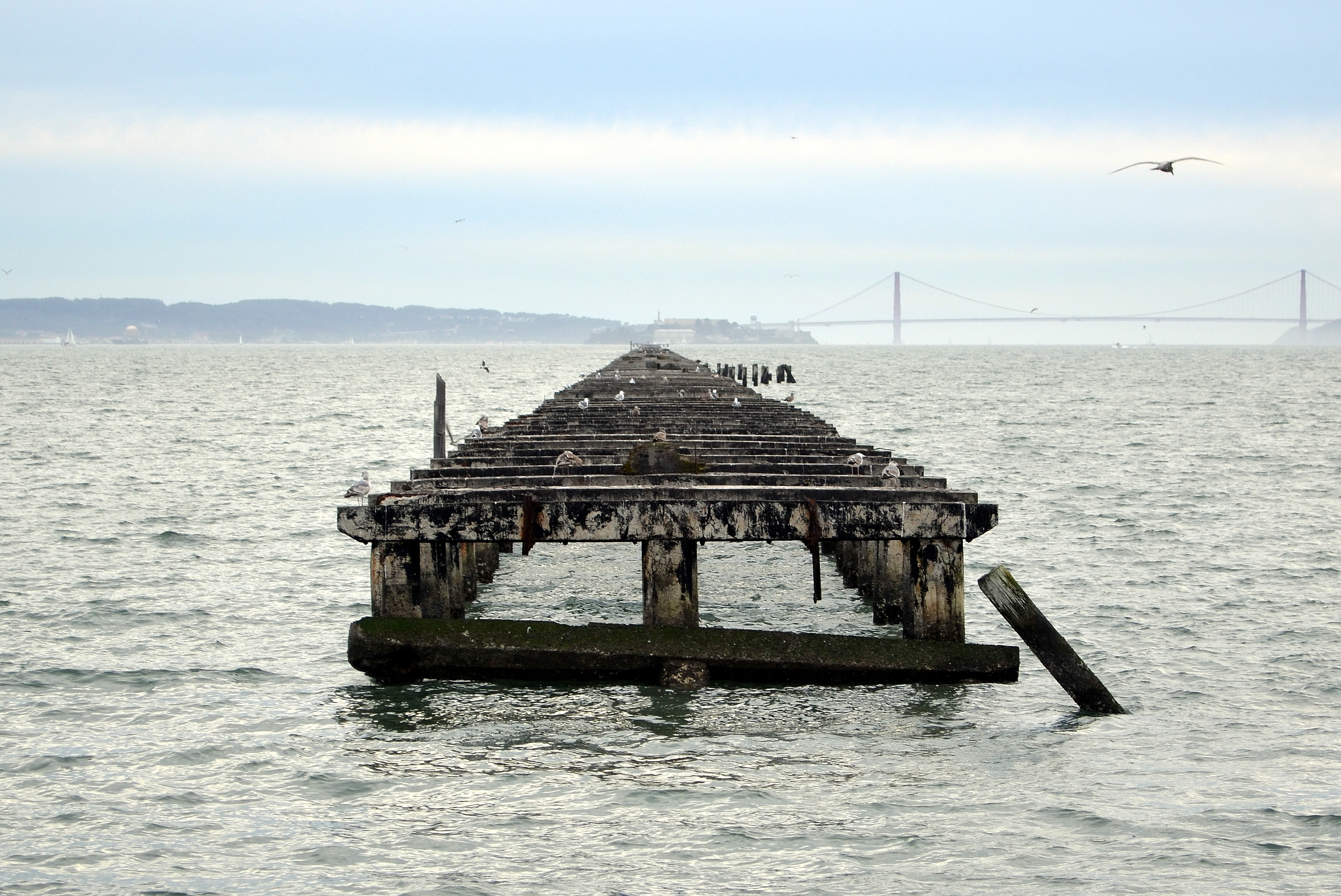 Inaccessible portion of the Berkeley pier with the Golden Gate bridge in the background